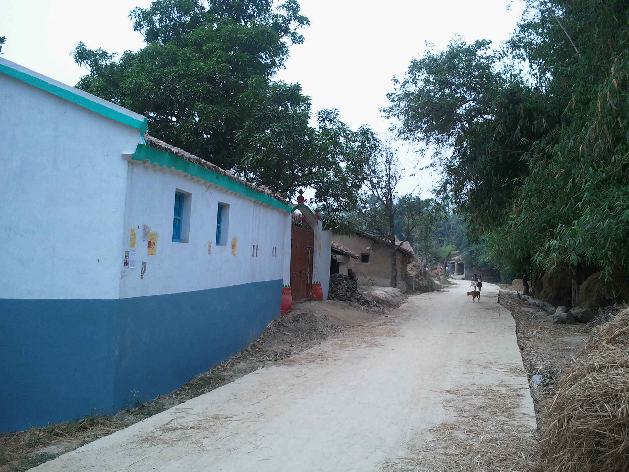 A view of road near village Pond in Jharbaria